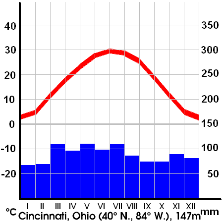 Maxium temperature and precip. in Cincinnati, Ohio. Created using Data from WMO / NWS